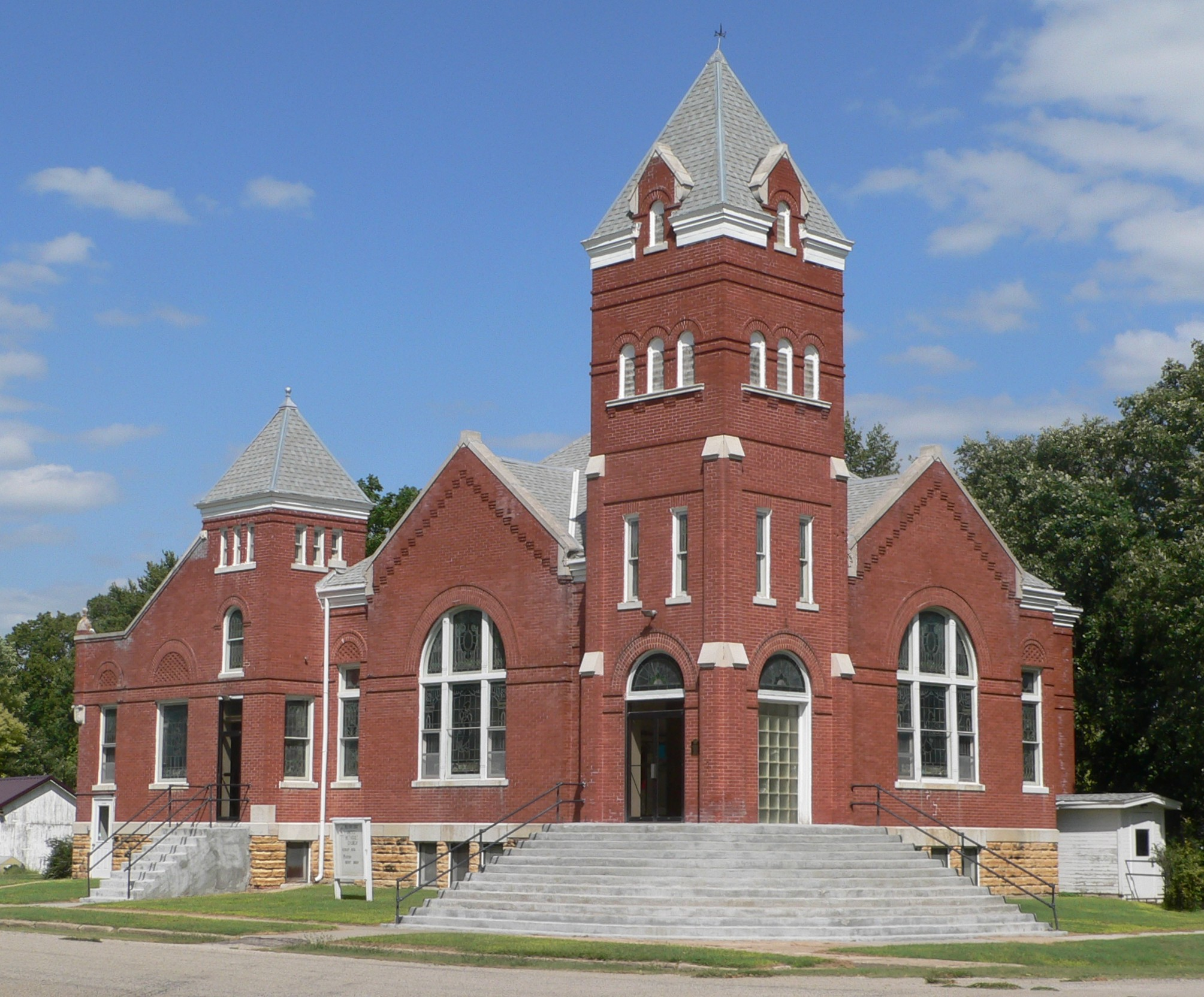 United Methodist Church in Burr Oak, Kansas; seen from the southwest.